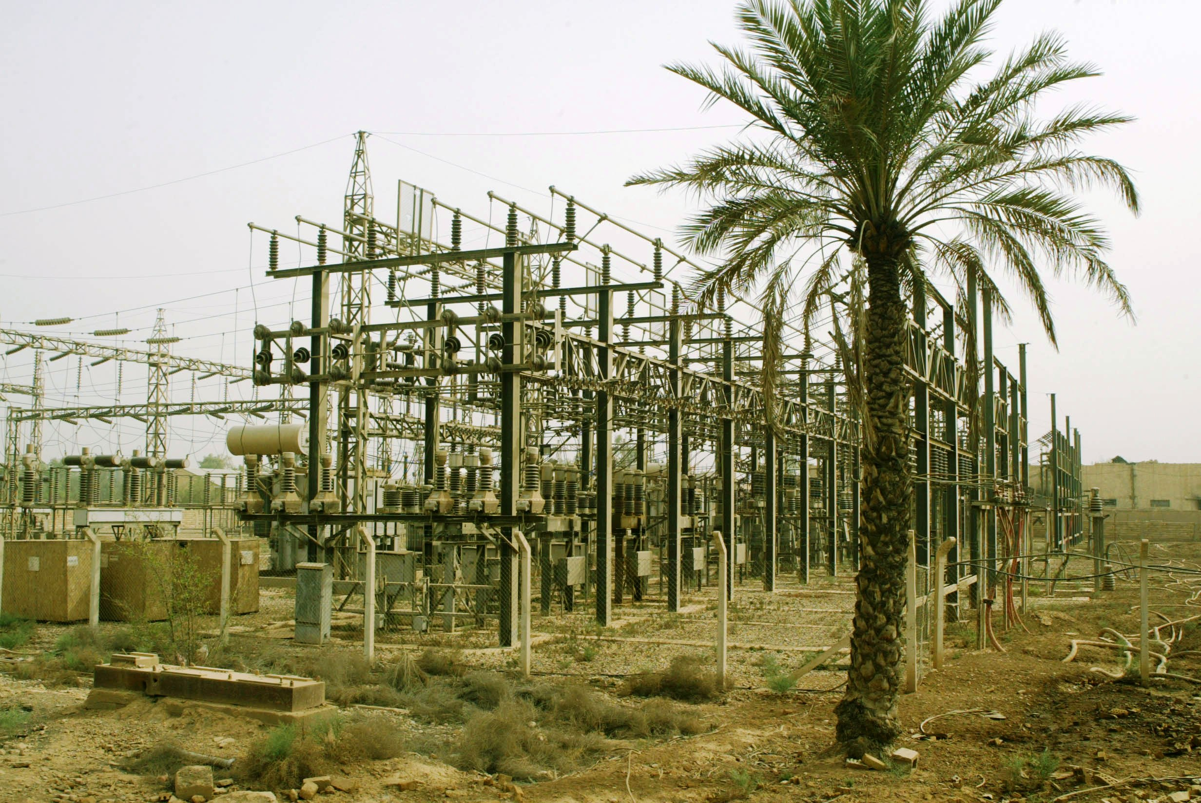 Electrical distribution facility that is part of the Baghdad Electric Authority.